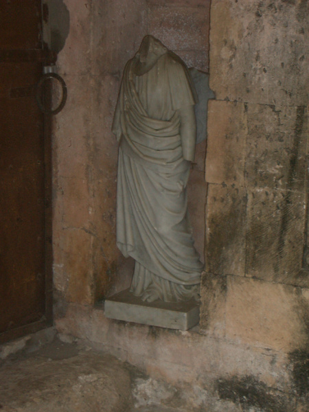 An ancient sculpture at Khobi cathedral,Georgia